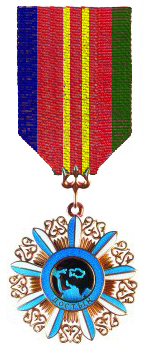 The state award of Republic Kazakhstan - an award of Friendship (Достык) 2 degrees